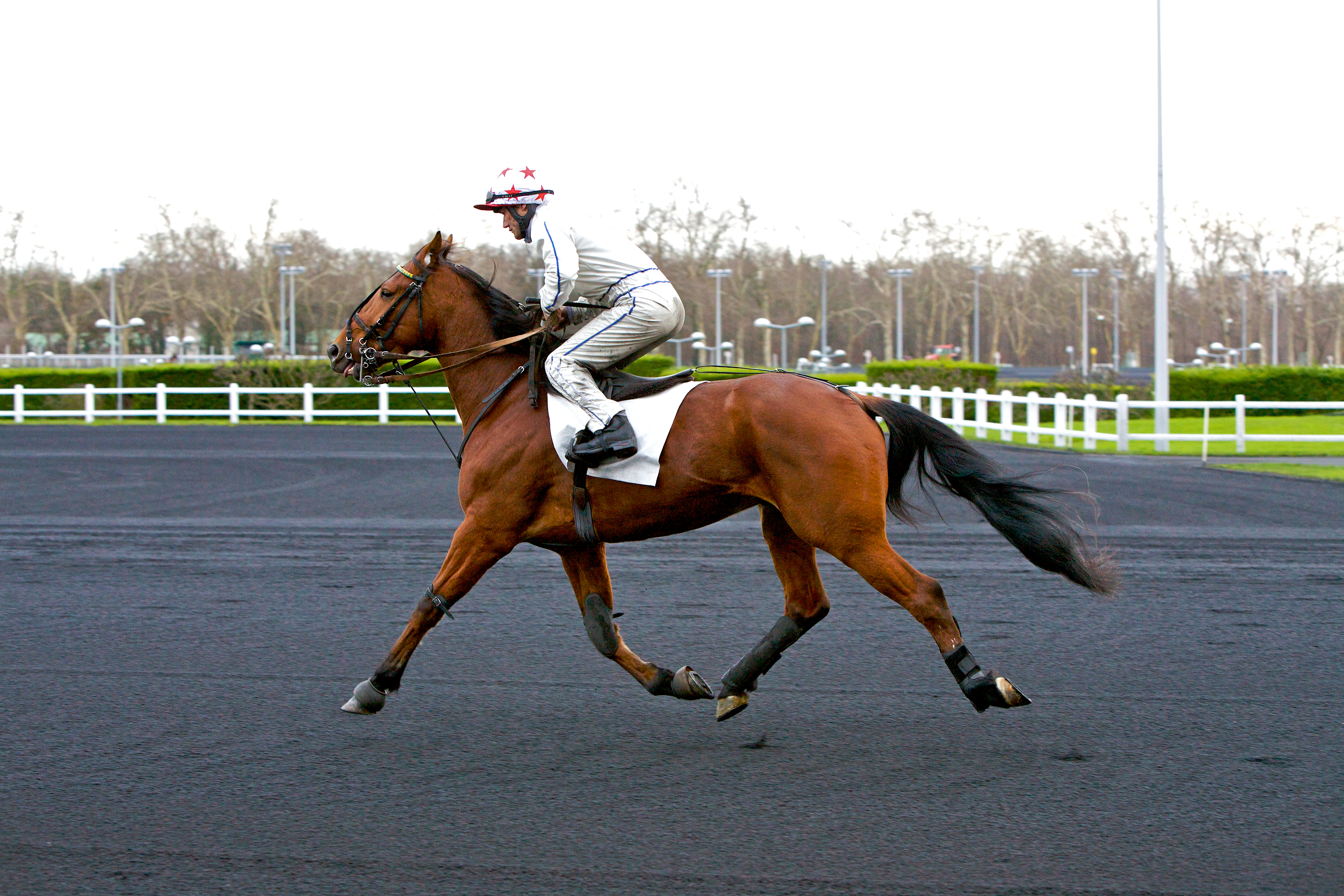 Monté racing at the Hippodrome de Vincennes